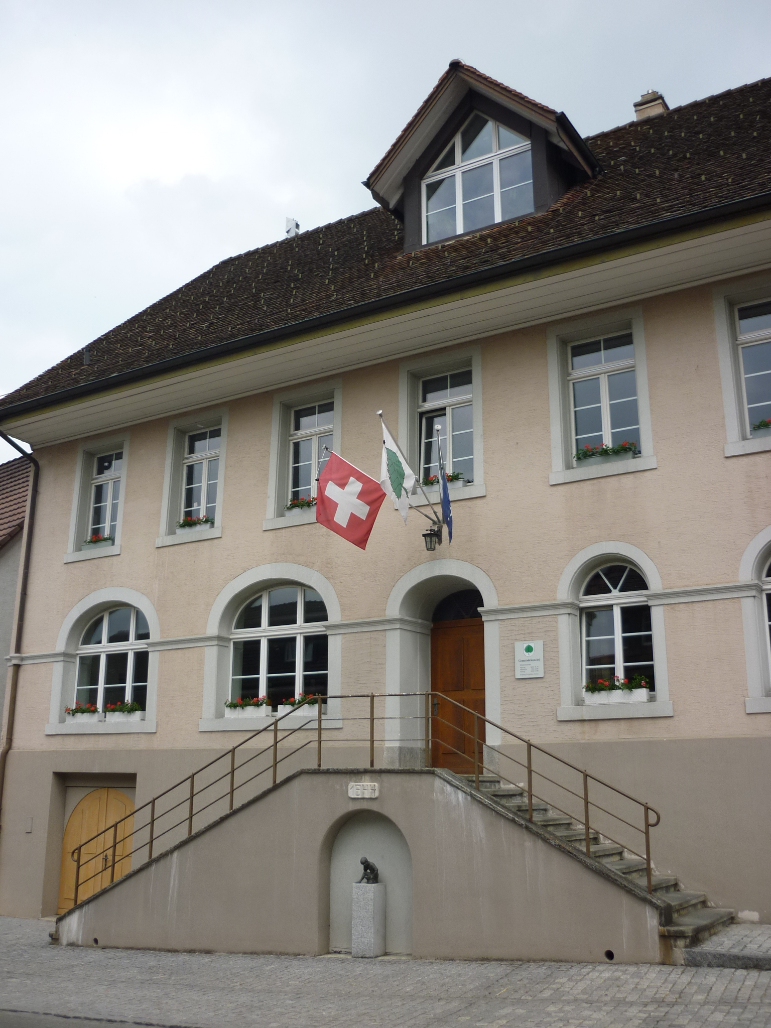 Parish hall, Schupfart AG, Switzerland